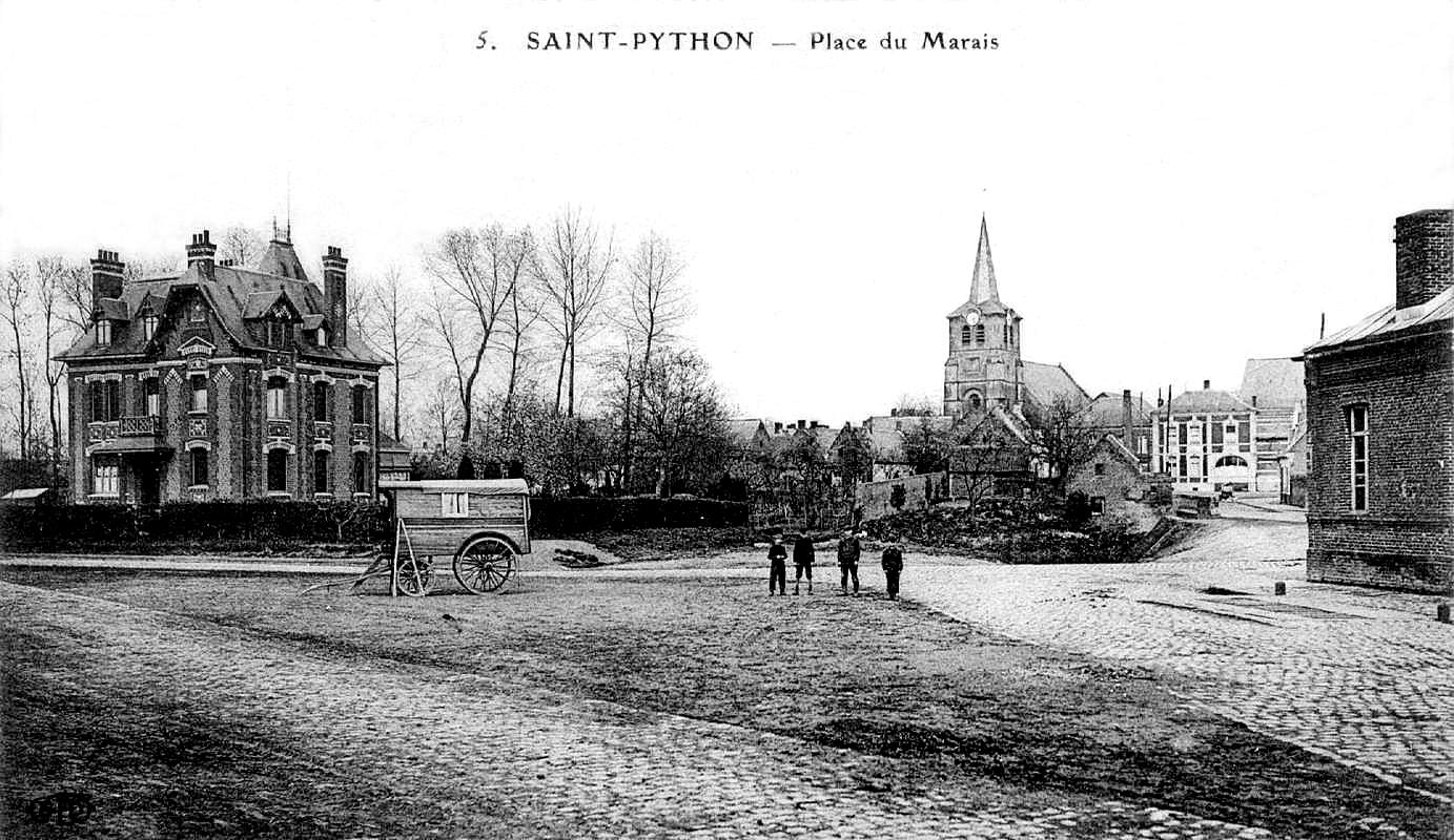 Photograph from 1908 by E.L.D. On this place of the Marais, which will later become the "Place du poilu", a shepherd's trailer with near it its probable owners. On the left the "Château Leterme". There is little change compared to the photographs from 1903. However the brewery (future town hall) has its entrance walled and its zinc chimney has disappeared. The house on his left was razed.